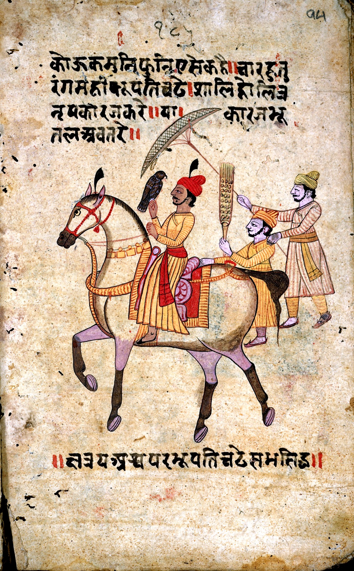 An aristocratic falconer hunting with his hawk, accompanied by two servants Asian Collection Keywords: equestrianism; falconry; Akula